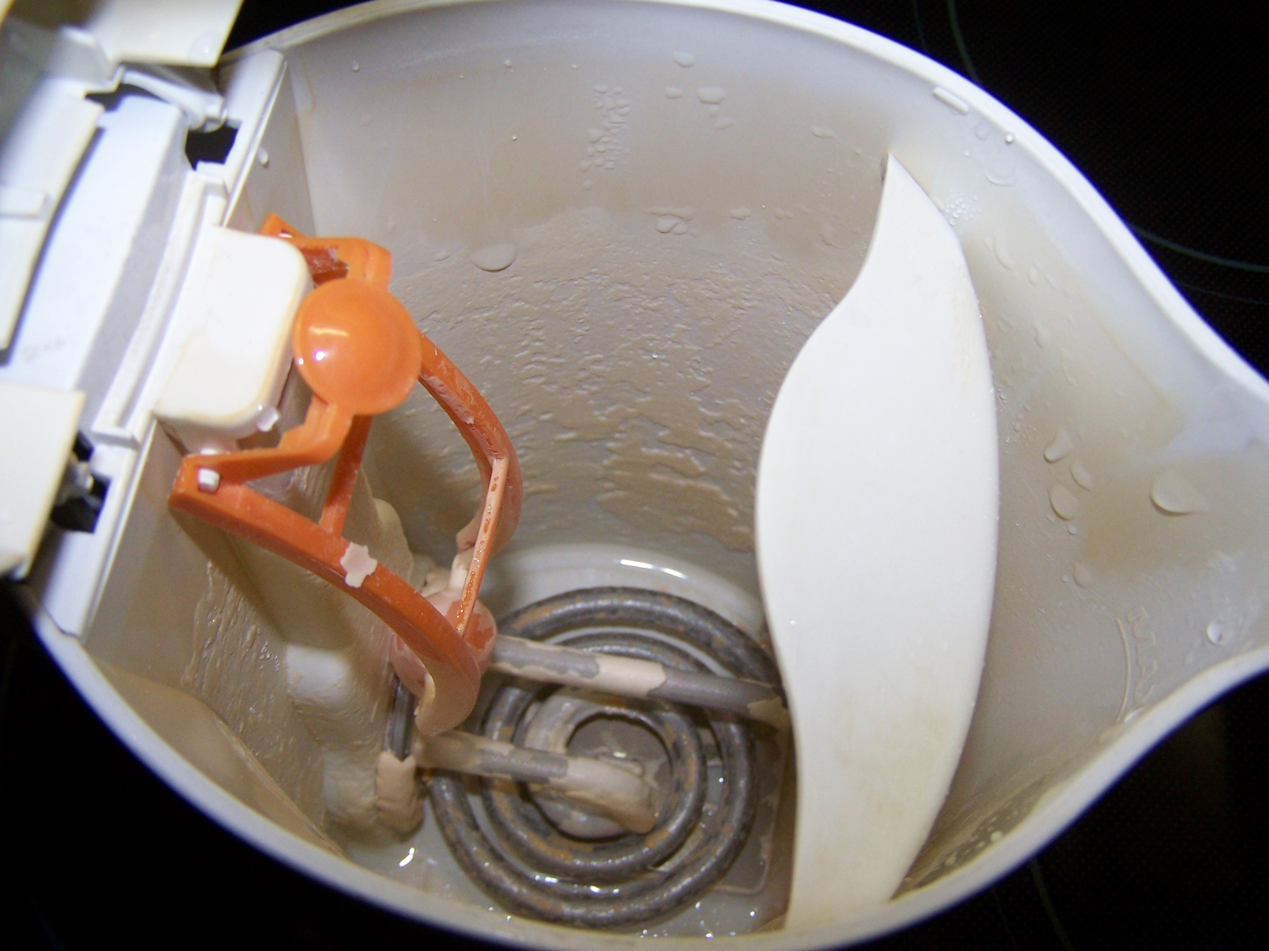 limestone in water kettle